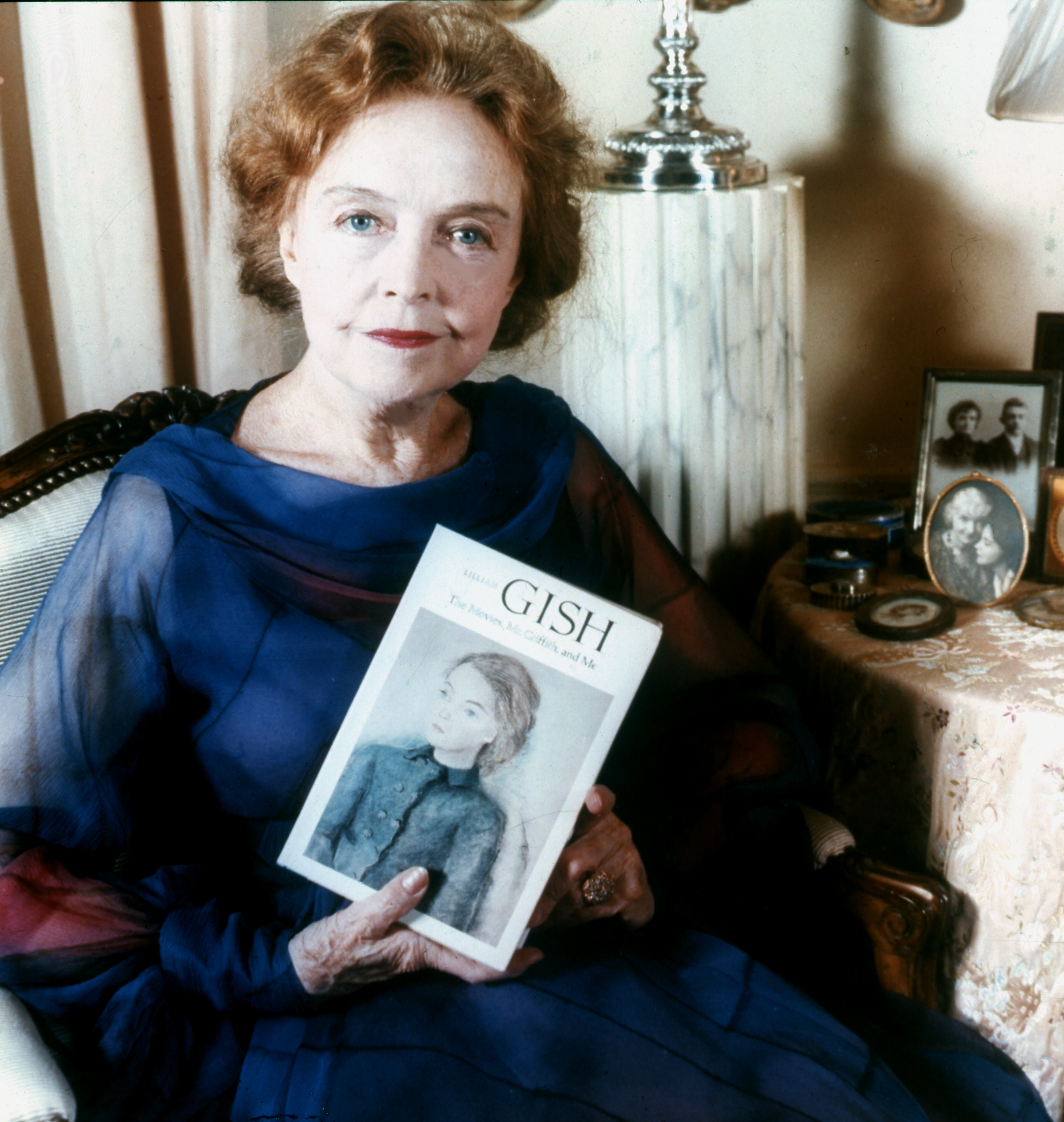 Portrait of Lillian Gish in her New York Apartment